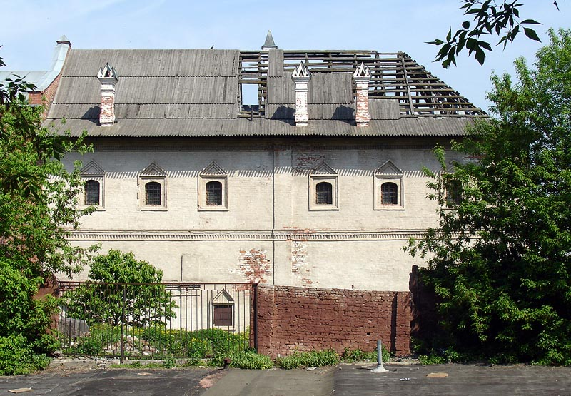 Moscow, Metochion, The Porch